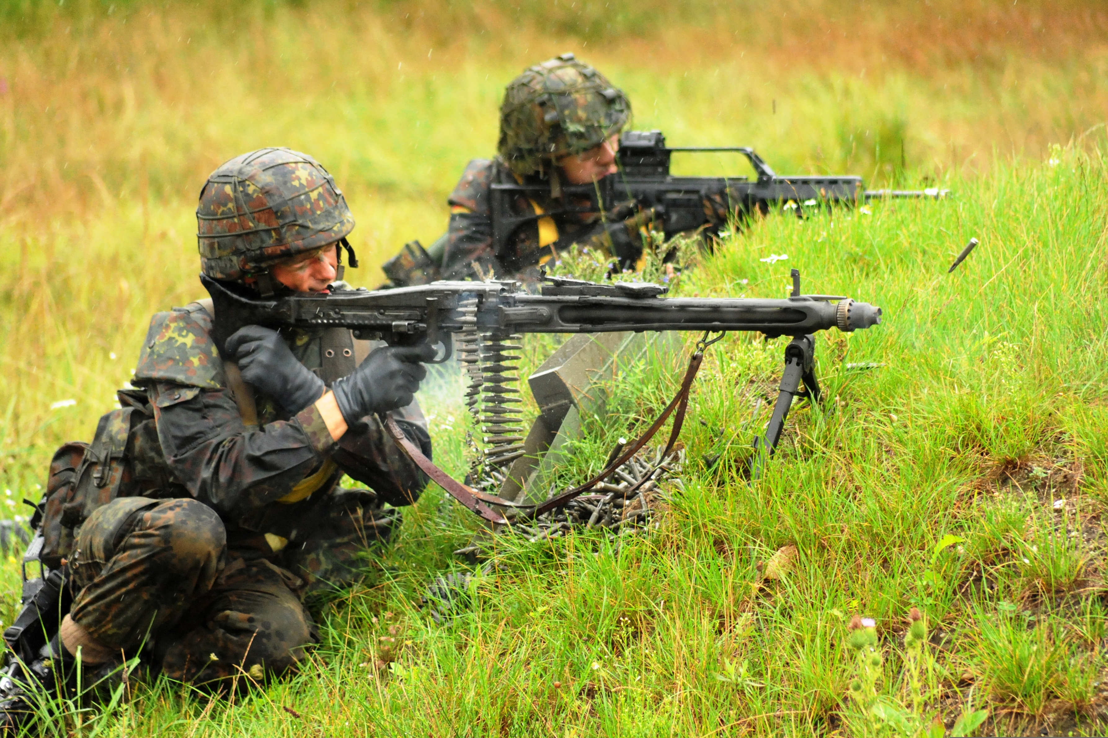 Two German Bundeswehr soldiers, assigned to the 701st Pioneer Battalion defend their position during a German-led platoon attack mission with a U.S. Army Sapper squad in support, August 23, 2010, Grafenwoehr Training Area, Germany.